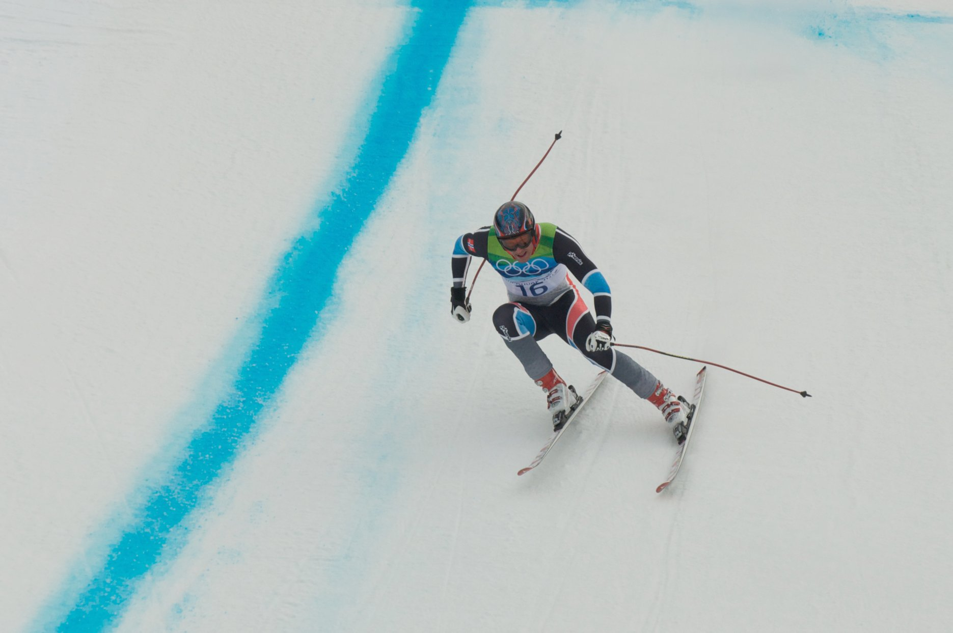 Men's Downhill at the 2010 Winter Olympics: Silver medalist Aksel Lund Svindal of Norway on his run.